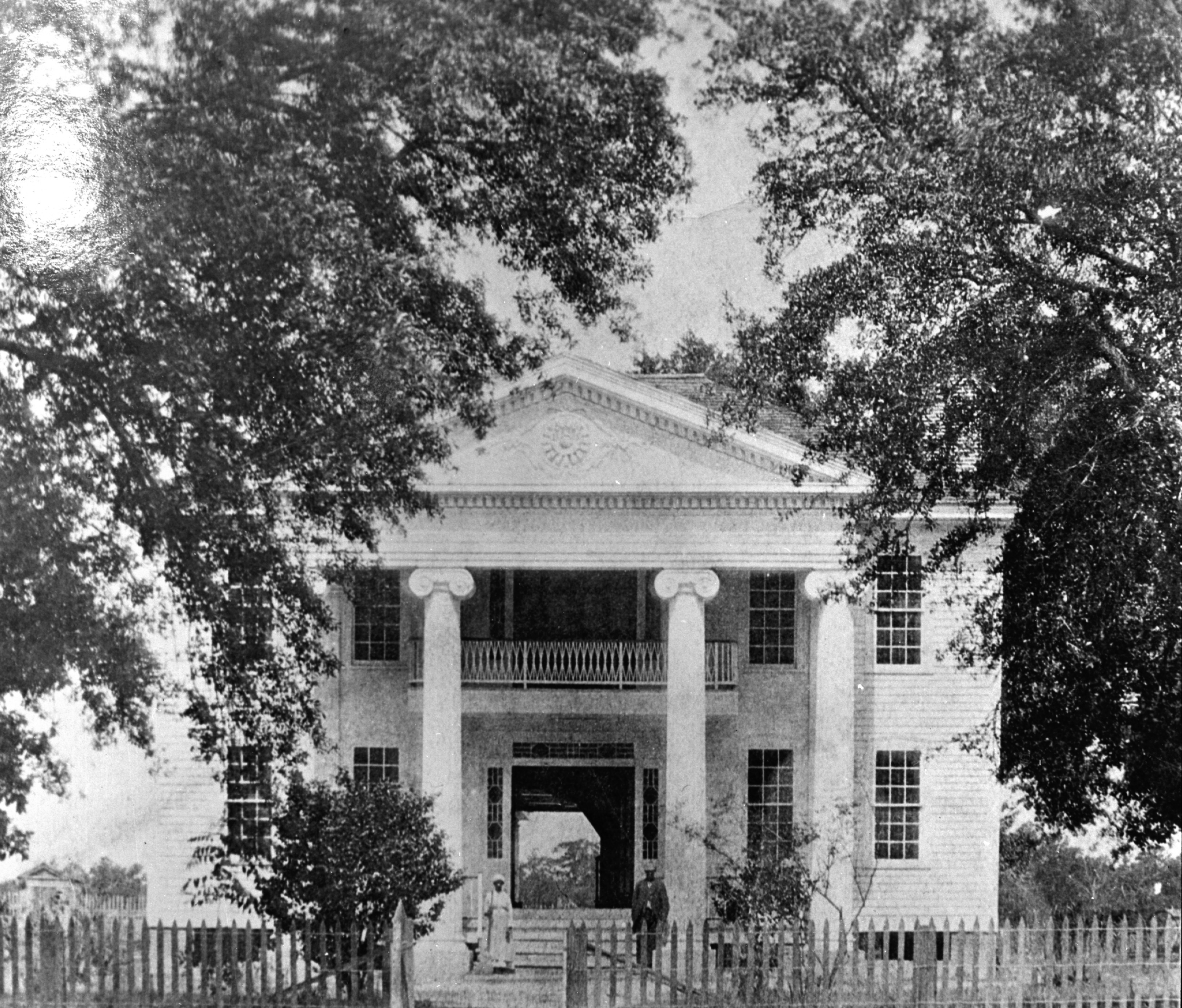 This is the earliest known photograph of Cedar Grove (modern Susina Plantation) in what is now Grady County, Georgia, USA. It certainly taken before 1891 and probably after 1870. This photo is from the archives of the Thomas County (GA) Museum of History and is public domain.